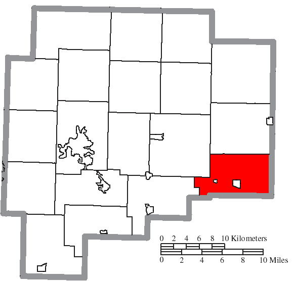 Map of the municipal and township boundaries of Guernsey County, Ohio, United States, as of the 2000 census, with the location of Millwood Township highlighted. Township borders are shown only in unincorporated areas in order to differentiate incorporated and unincorporated areas more clearly.